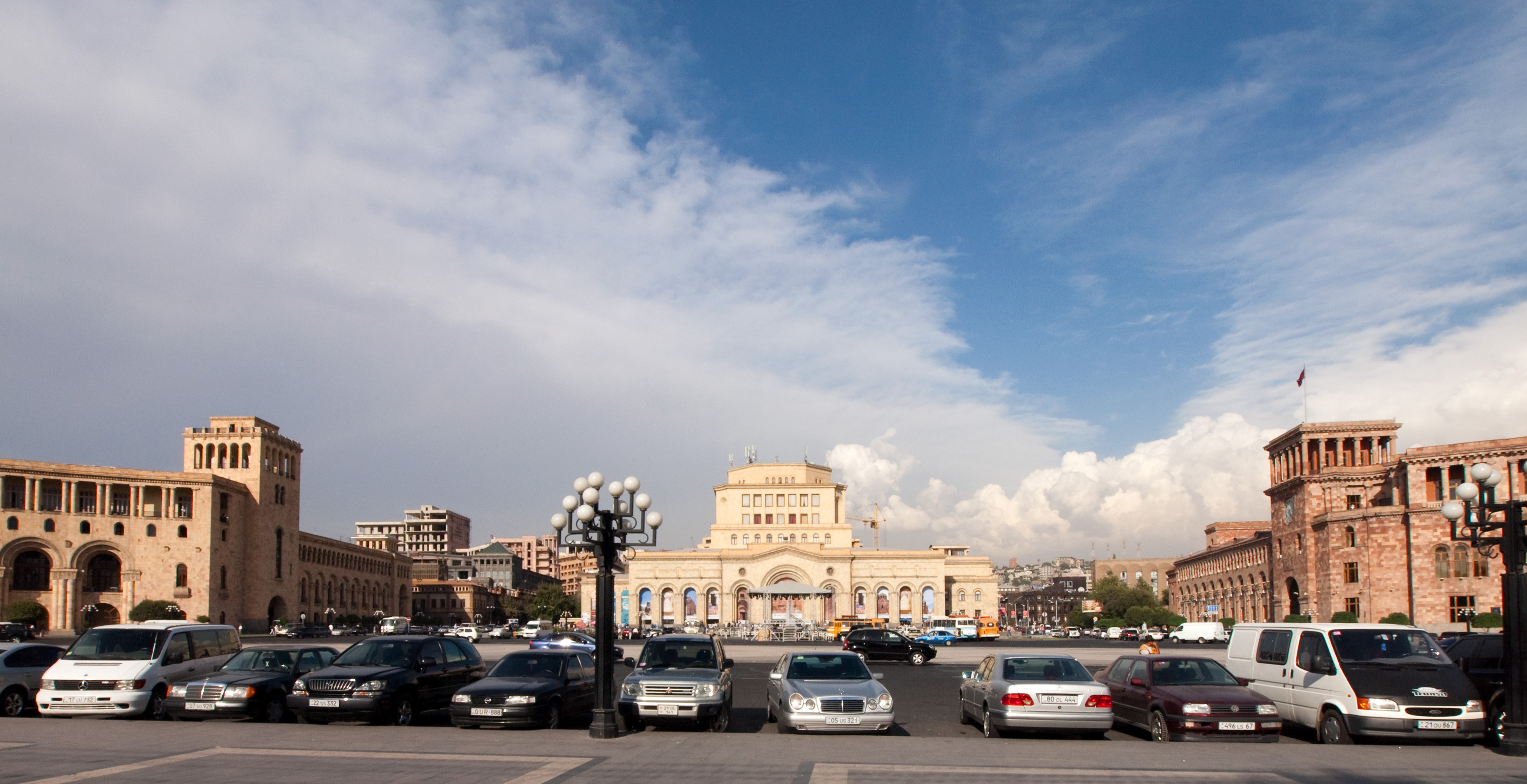 Yerevan, the Republic Square